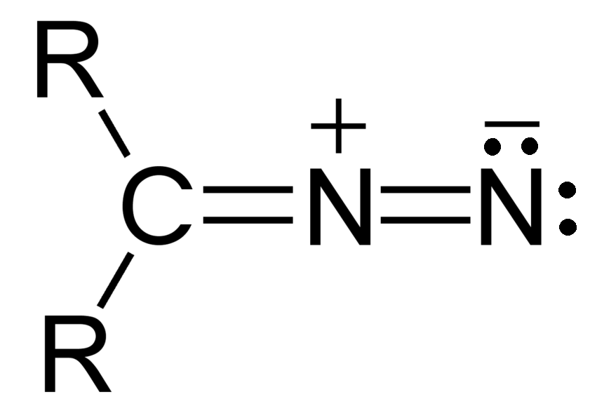 Diazo compounds structure